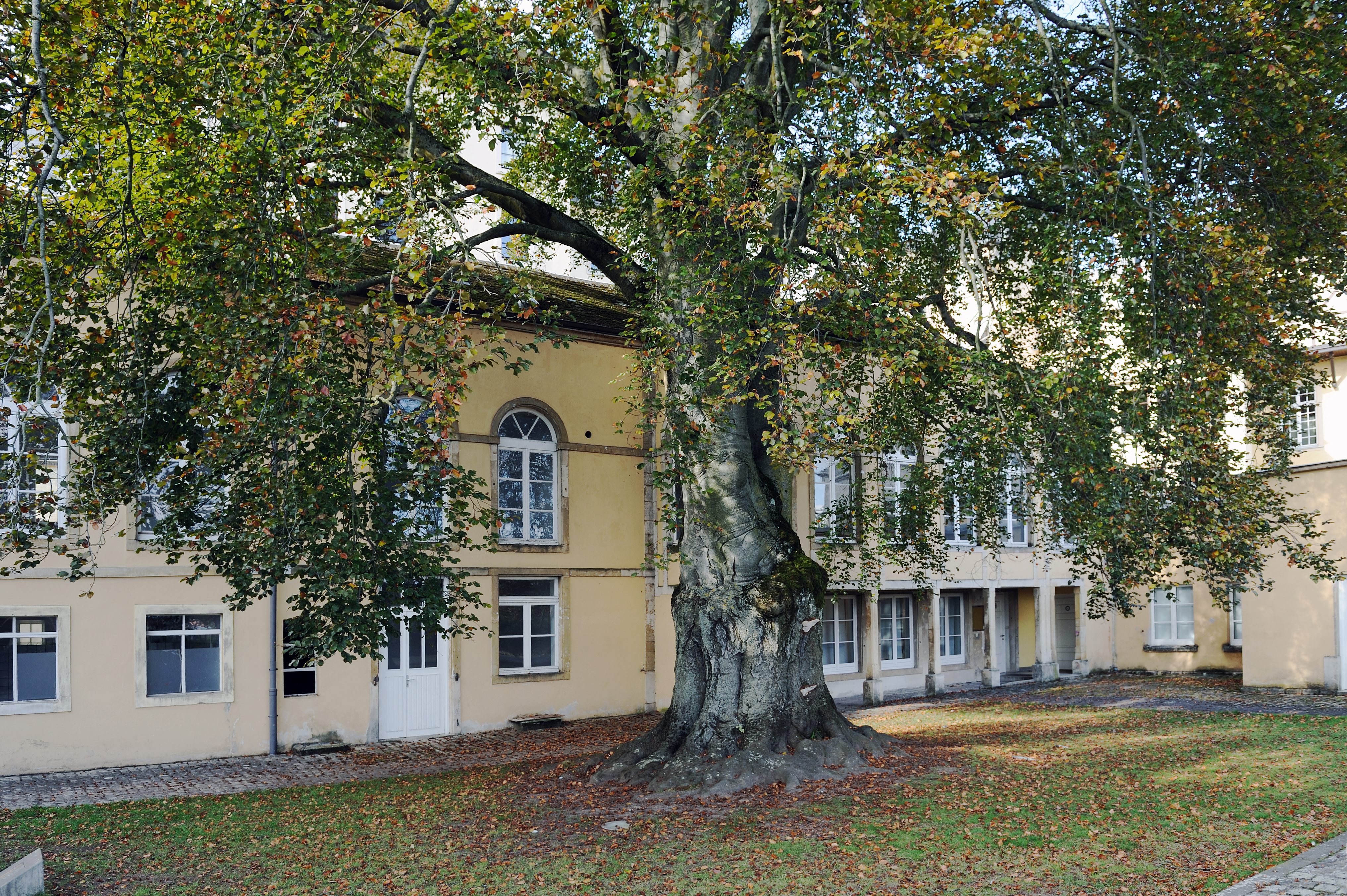 Purple Beech (Fagus sylvatica f. purpurea) in the courtyard of the History Museum of the City of Luxembourg (Plateau du Saint-Esprit).